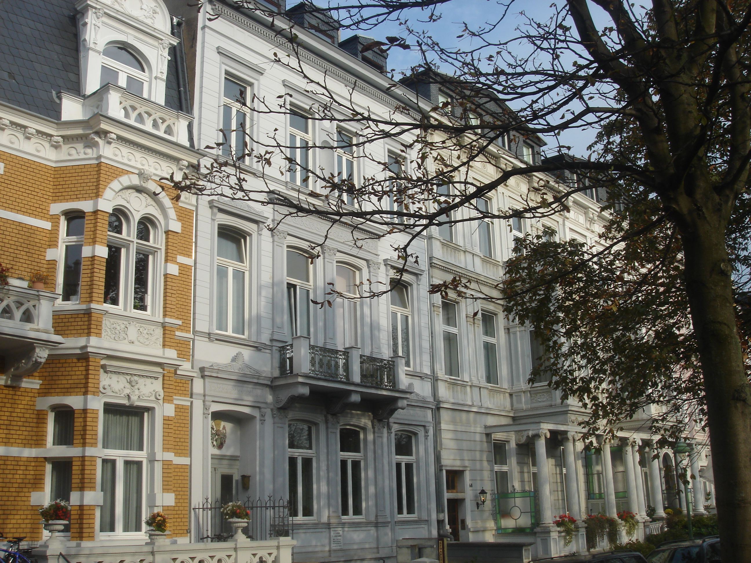 Gründerzeit houses in the Poppelsdorfer Allee, Bonn, Germany.